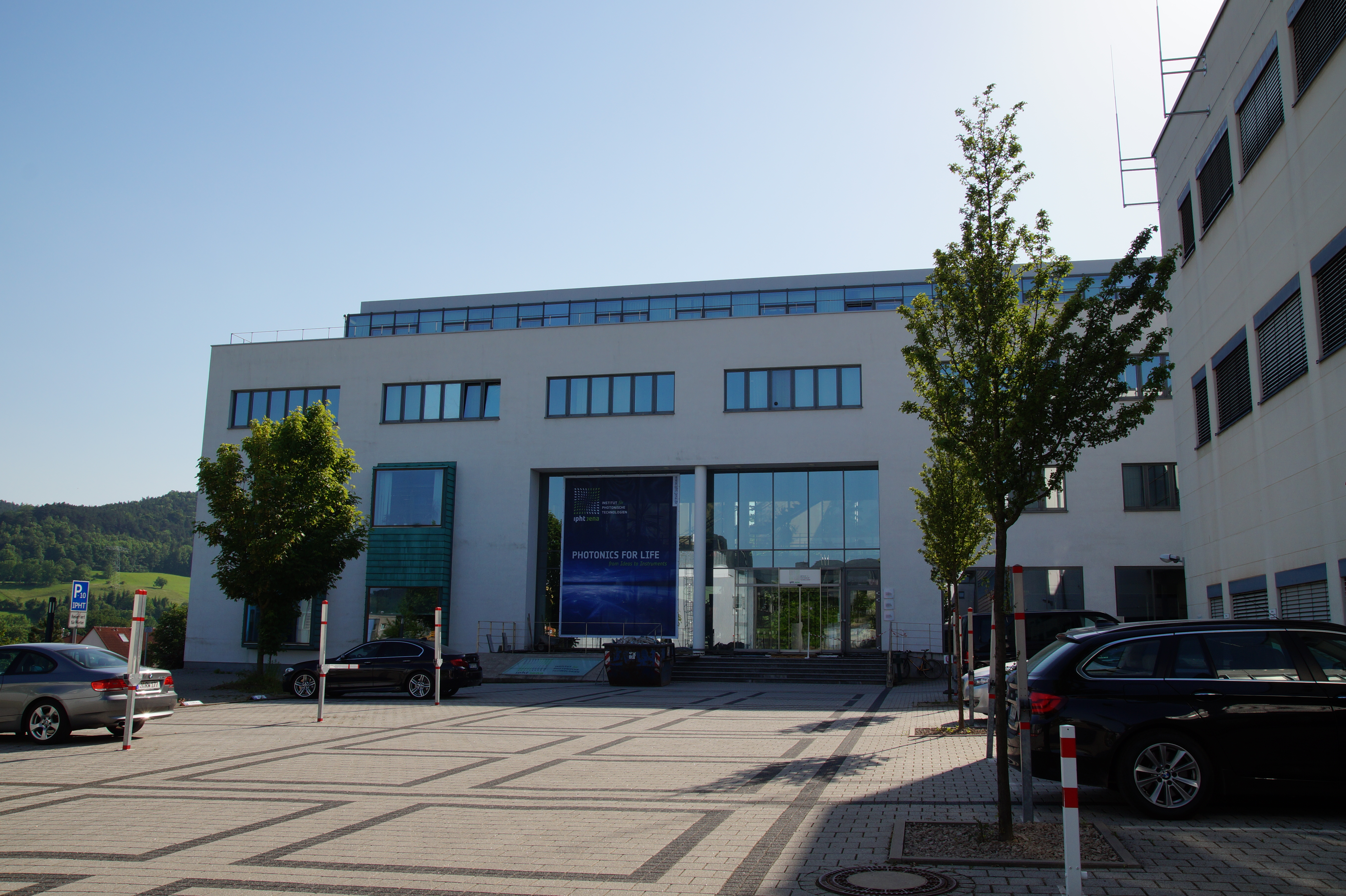 The Institute of Photonic Technology at the Beutenberg Campus in Jena.